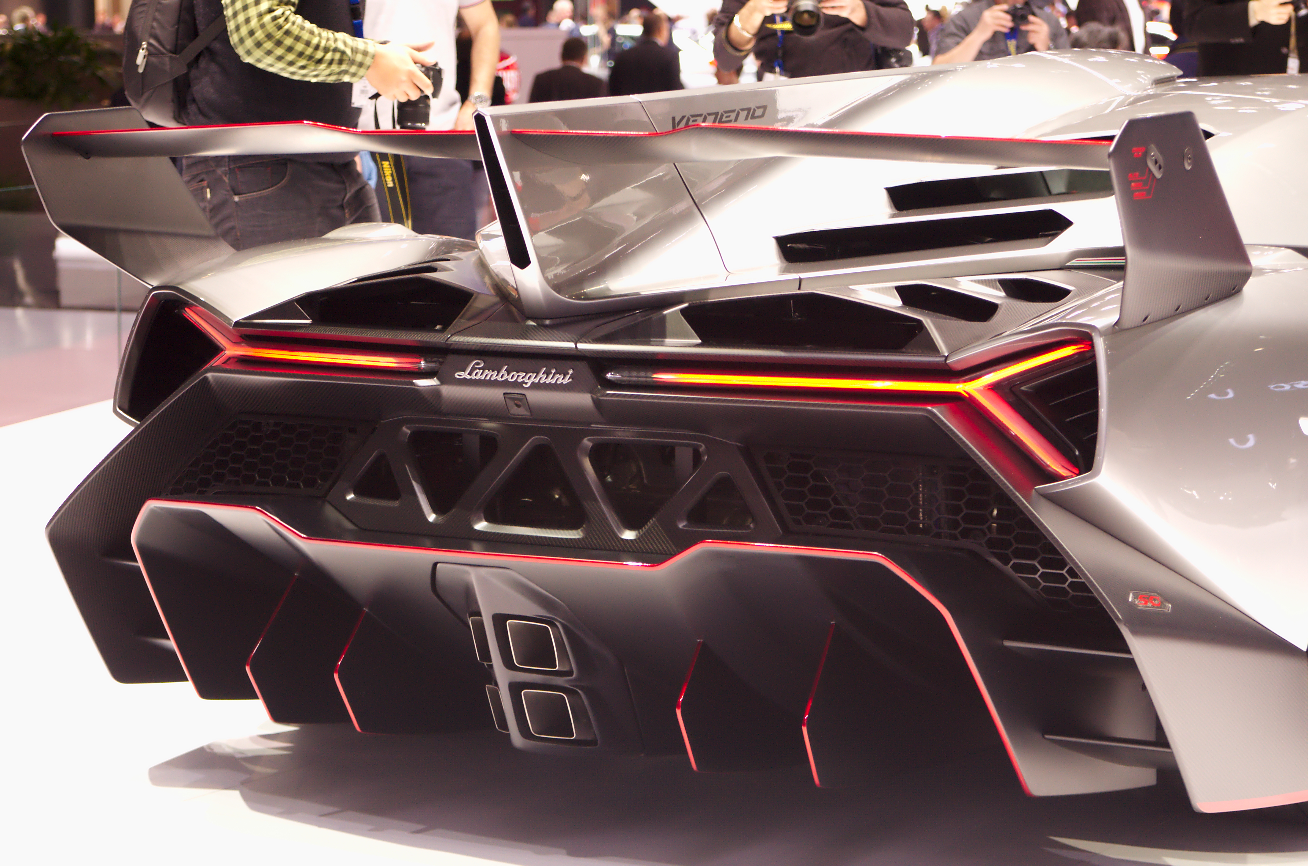 Geneva MotorShow 2013 - Lamborghini Veneno rear